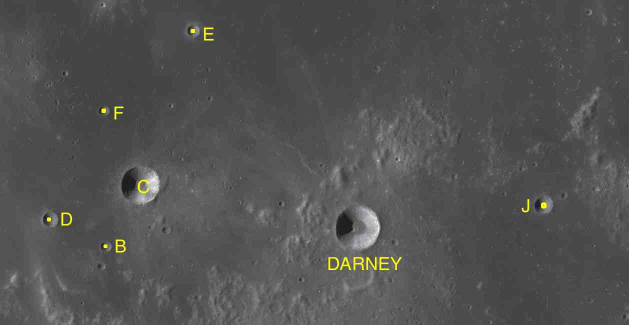 Part of the chart LAC-76 used for the presentation